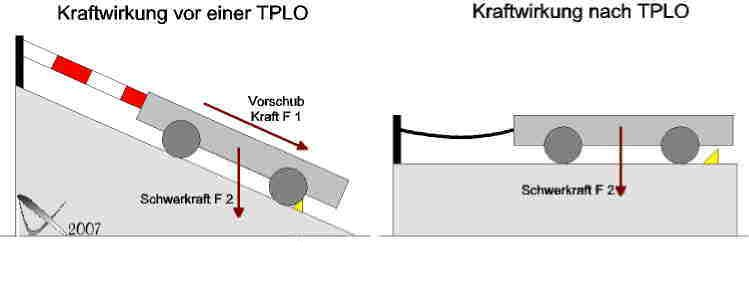 tplo inclined plane